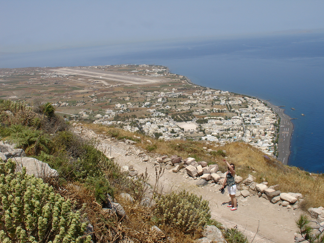 Santorini airport and town of Kamari